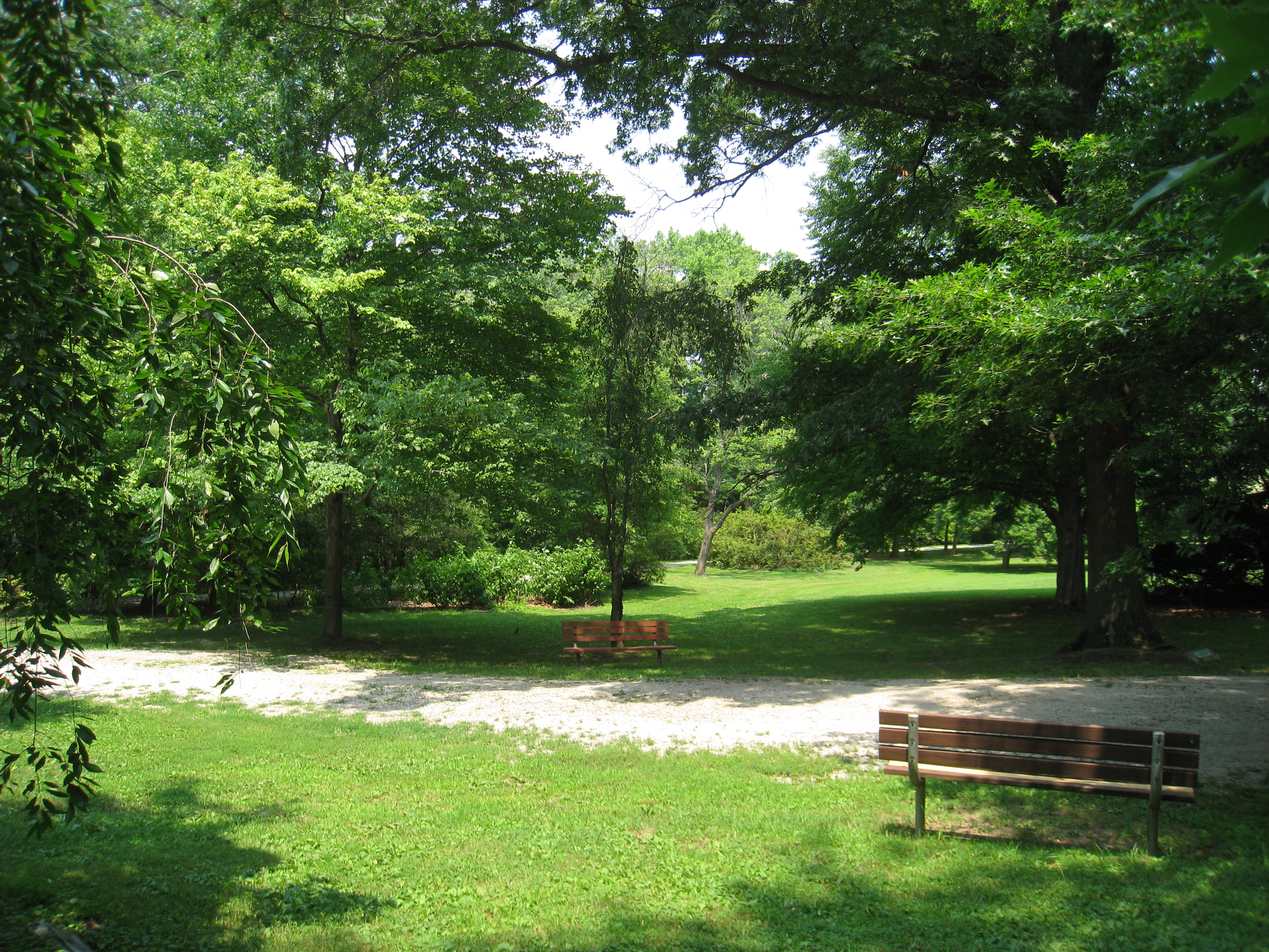 General view of Merion Botanical Park, Merion, Pennsylvania, USA.